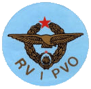 This is Logo of SFR Yugoslav Air Force.